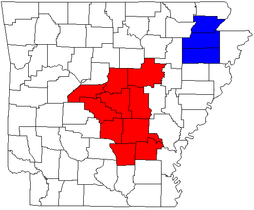 Map of Arkansas' Combined Statistical Areas; created with the GIMP. Made by User:Acntx.